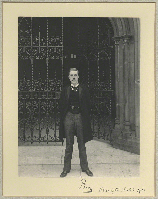 by Sir (John) Benjamin Stone, platinum print in card window mount, 1901